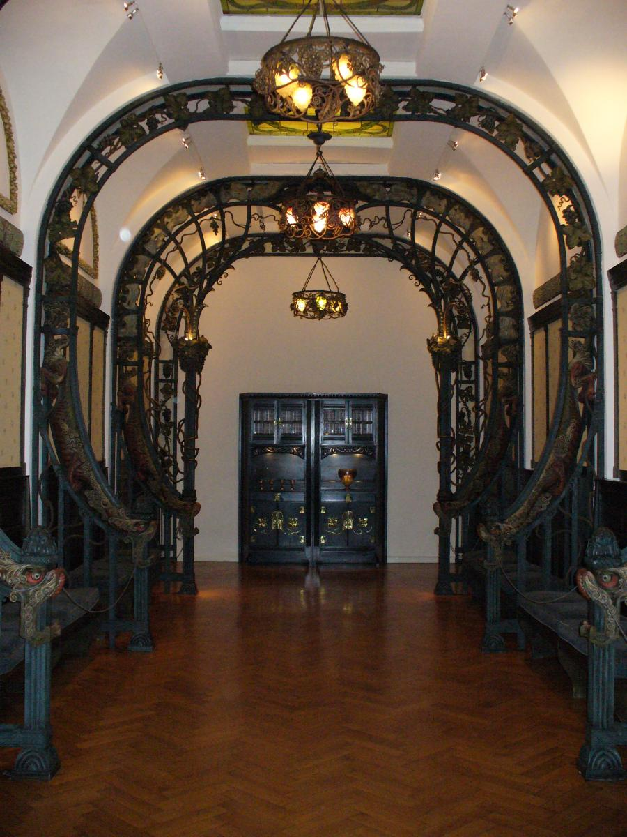 Traubensaal in Kupferberg House in Mainz am Rhein (formerly part of the German pavillon at the 1900 Exposition Universelle in Paris).